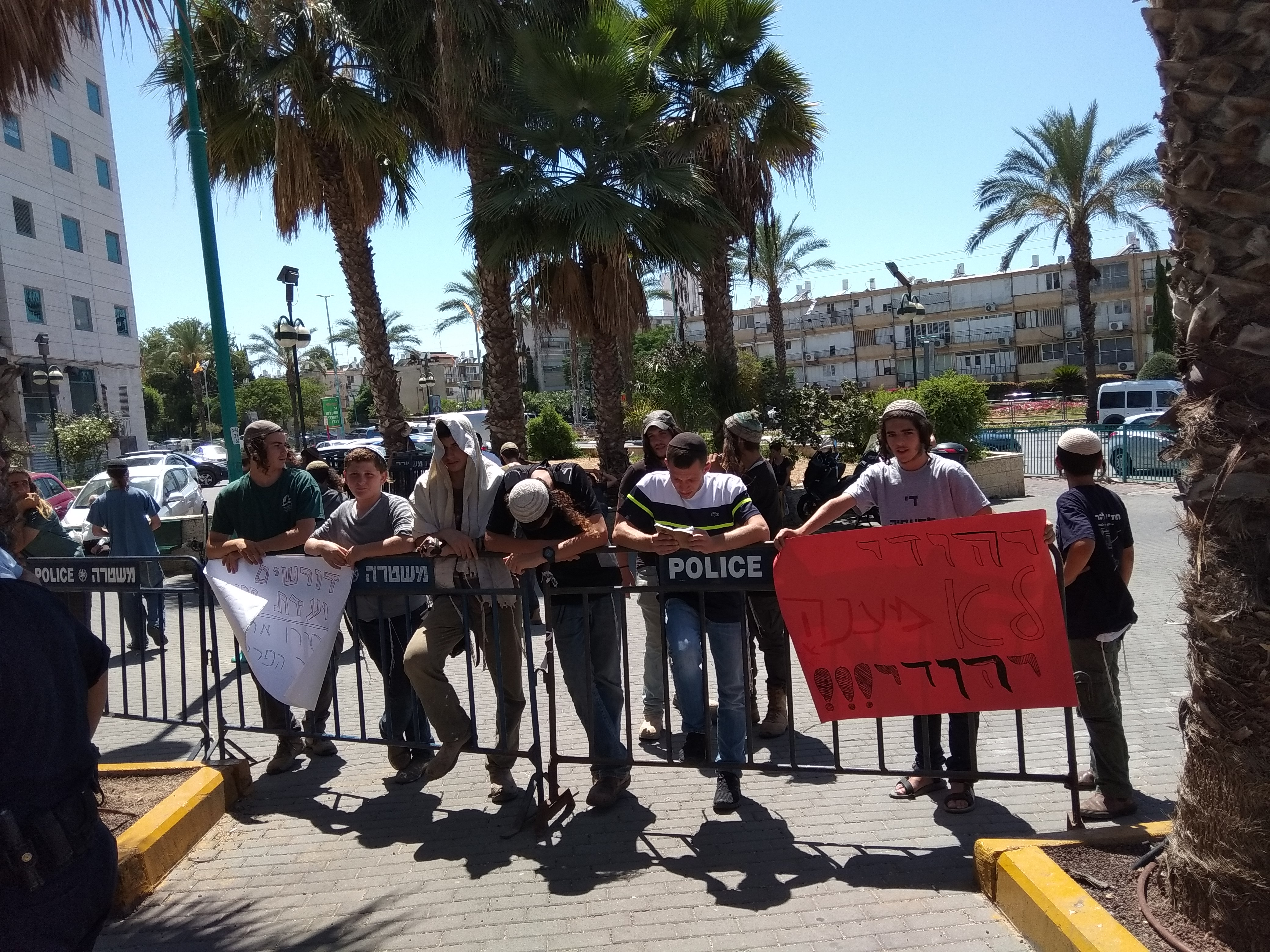 Right wing activists near the court during the trial of the suspects in Duma village arson attack. Lod, June 2018